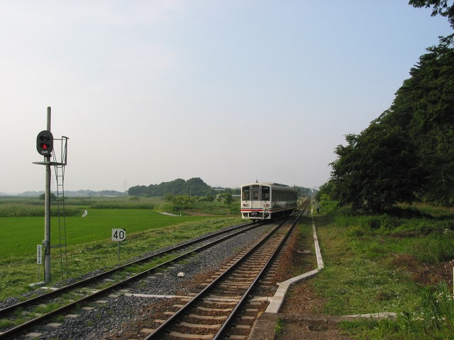 Tobanoe Station / 関東鉄道常総線 大宝駅